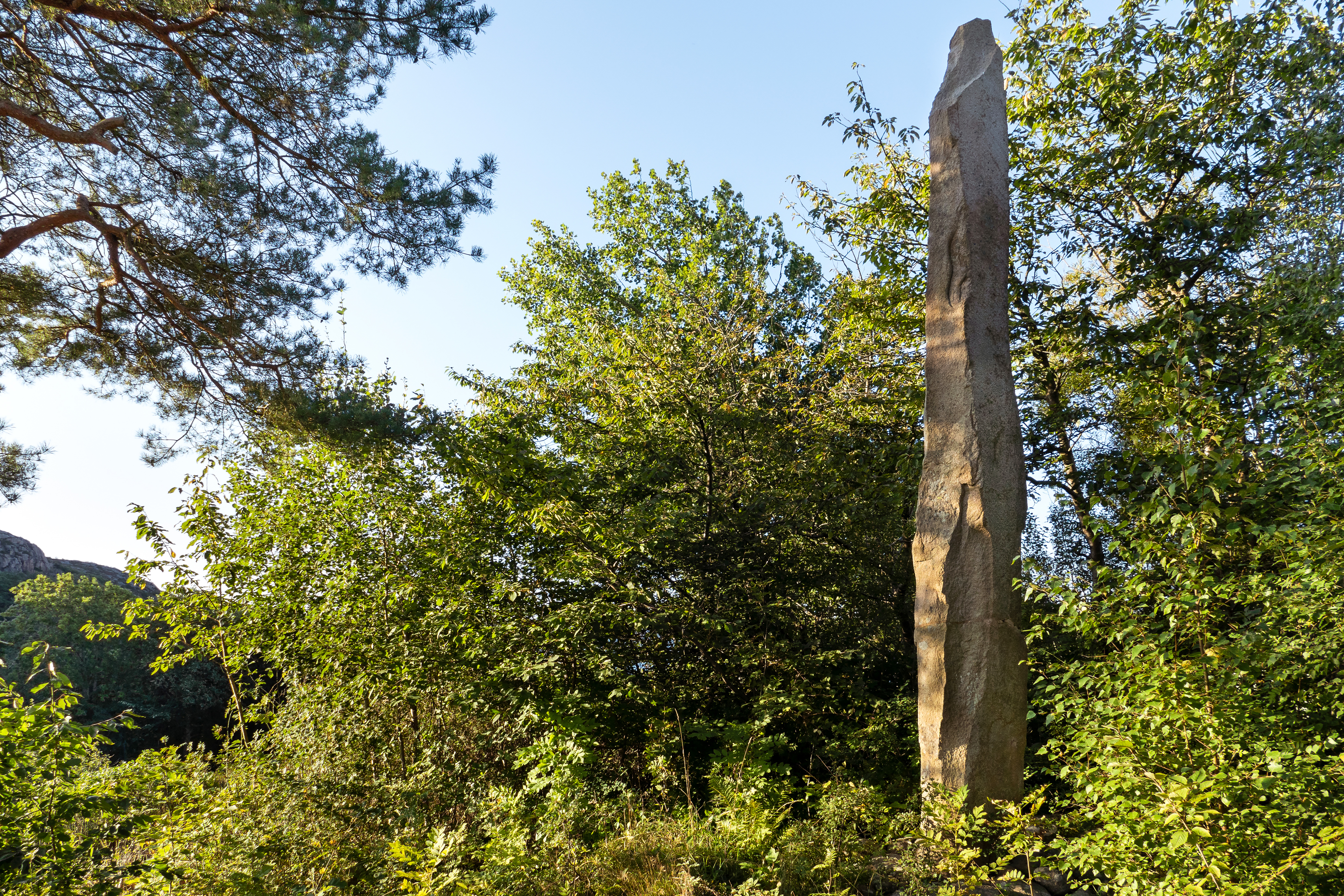 The north side of Vindbräcka menhir, Holländaröd, Lysekil Municipality, Sweden.The size of the menhir compared to a person